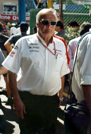 Ove Andersson, former Toyota F1 team boss, in the paddock at Monaco Grand Prix 2002.